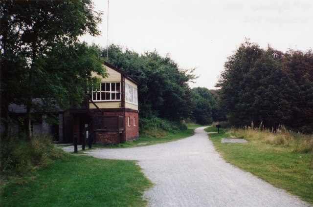 Hartington Signal Box and the Tissington Trail. Looking south. The route of the former Buxton to Ashbourne railway. Regular services ceased in 1954 and the line was closed in the 1960's. The Tissington Trail runs for 13 miles between Ashbourne and Parsley Hay and is popular with walkers and cyclists. The signal box has been renovated.